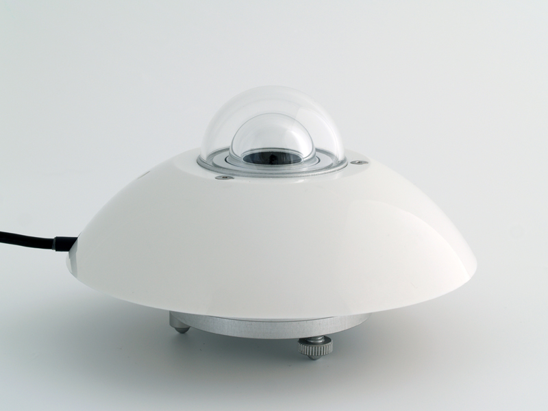 SR11 is a solar radiation sensor that can be applied in scientific grade solar radiation observations. It complies with the "first class" specifications within the latest ISO and WMO standards. The scientific name of this instrument is pyranometer.